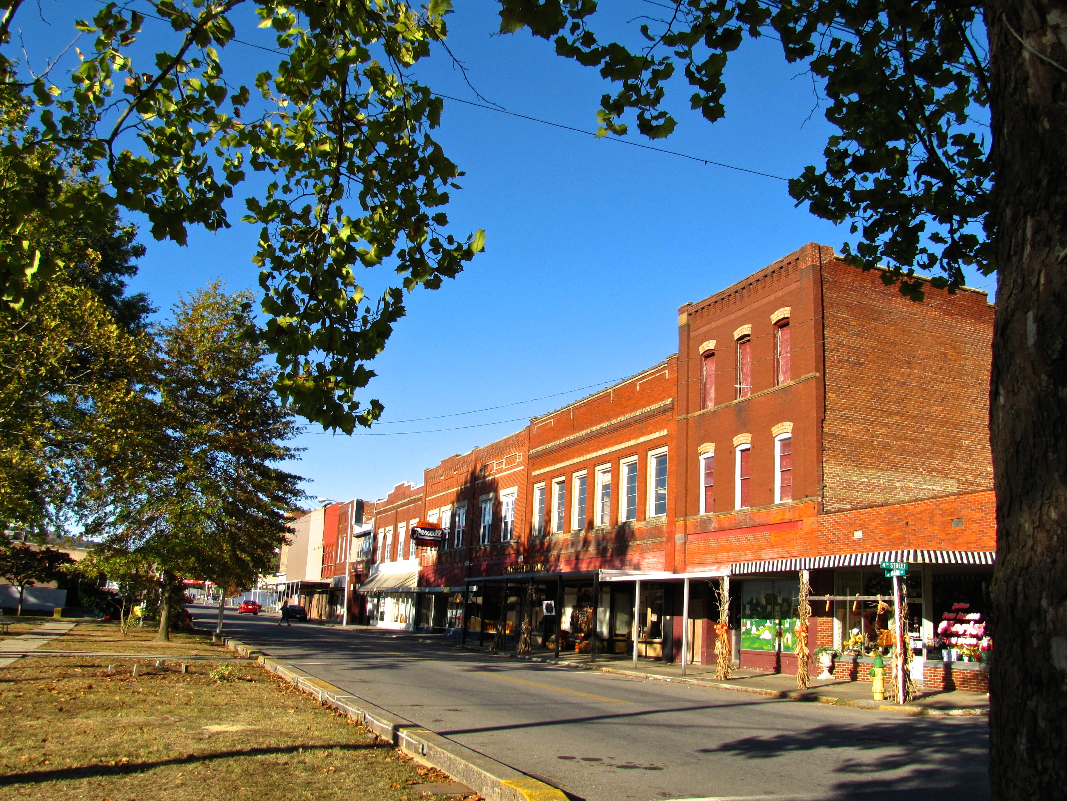 Buildings along North Main Street (U.S. Route 25W) in Jellico, Tennessee, United States.